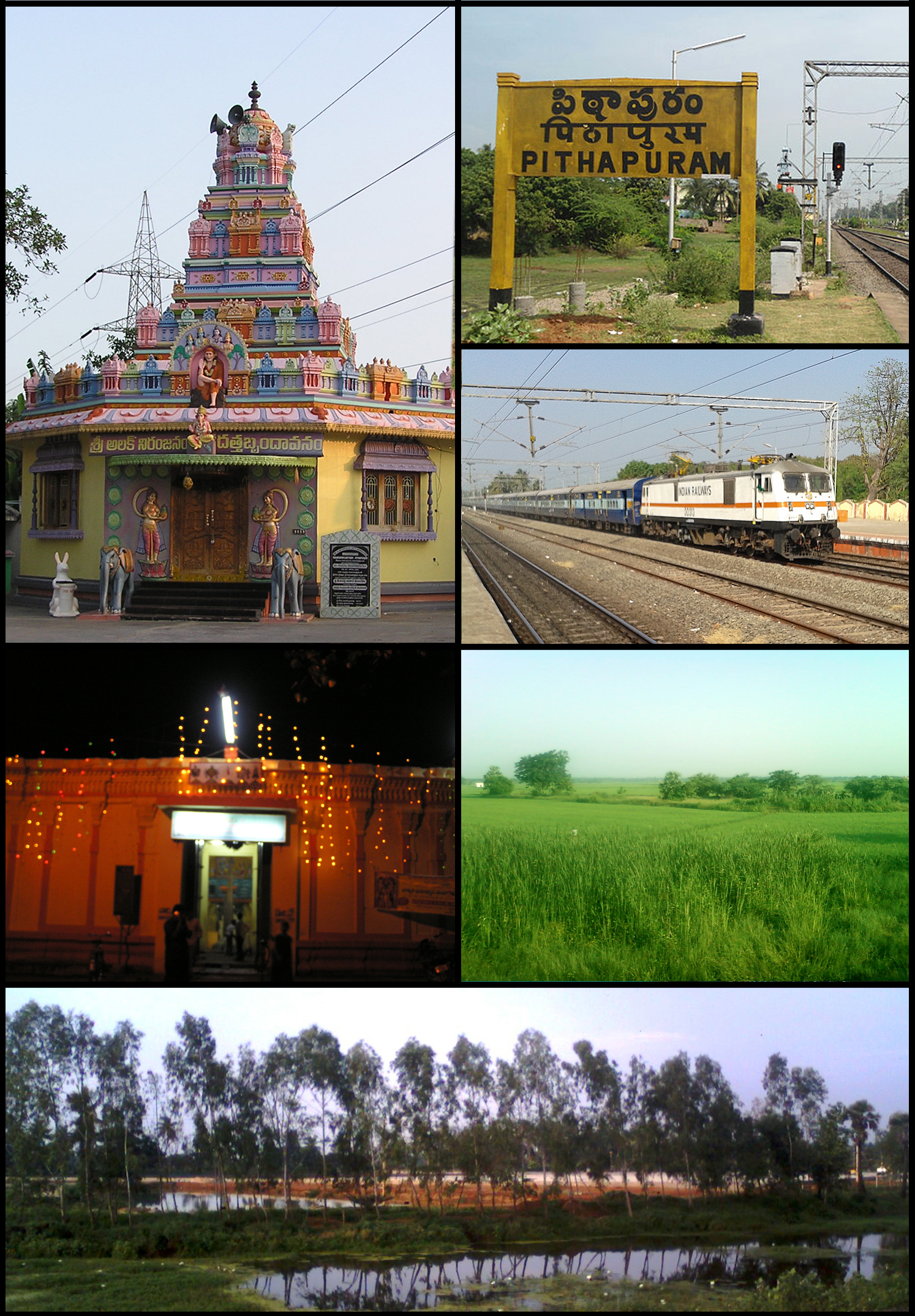 Montage of Pithapuram with Images from wikimedia commons